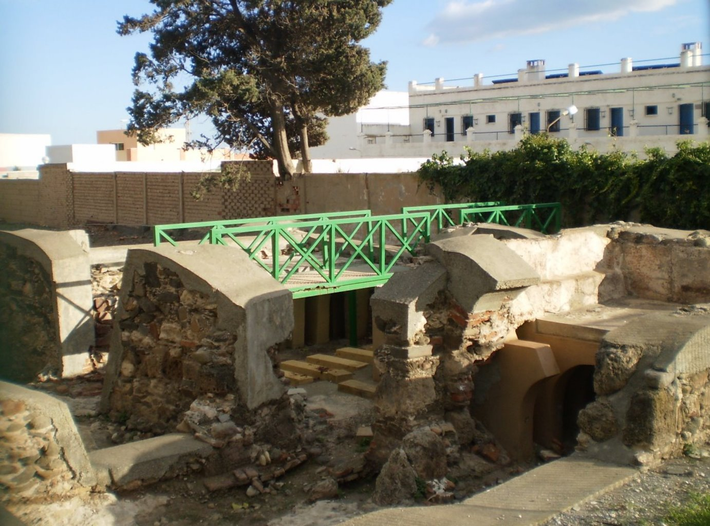 Roman baths at Torrox, Malaga (Spain).